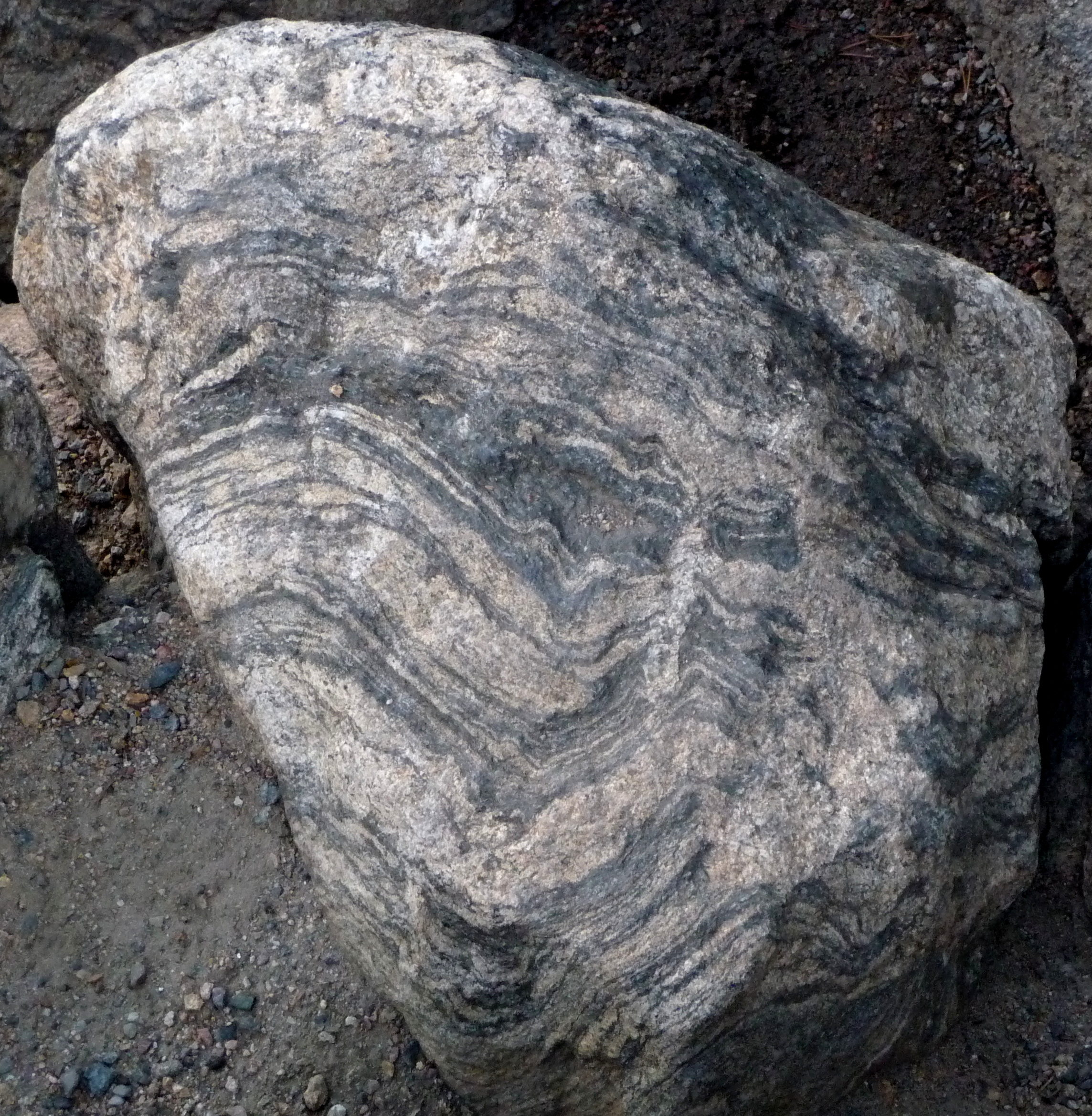 Sample of banded gneiss, near Bear Lake Rocky Mountain National Park, Colorado, USA.